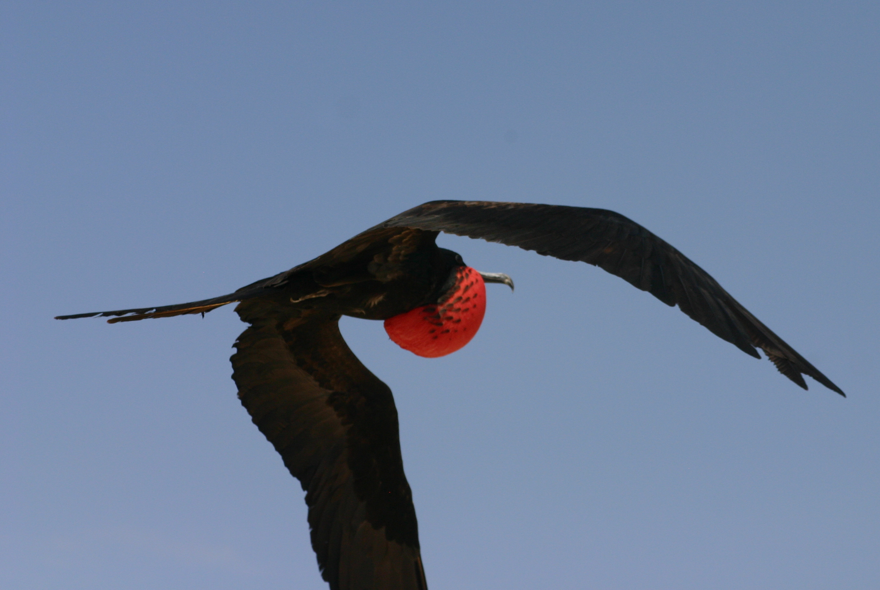 Male greater frigate bird in flight. Photograph taken on Genovesa Island (El Barranco) in the Galapagos Islands using Canon EOS300D and Canon 300mm Image Stabilizer EF lens with Skylight 1A filter.